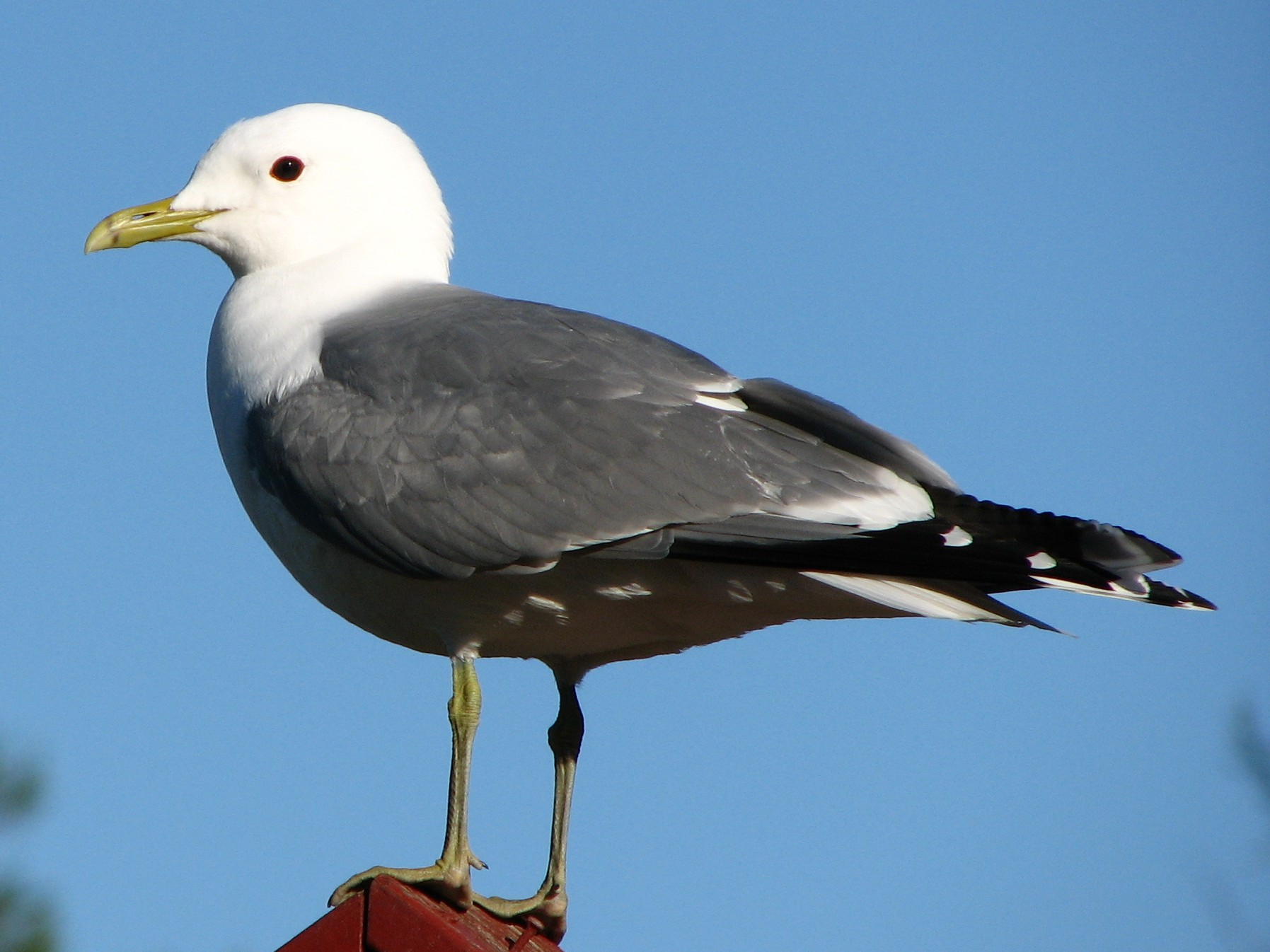 Common Gull taken in Bodø, Norway